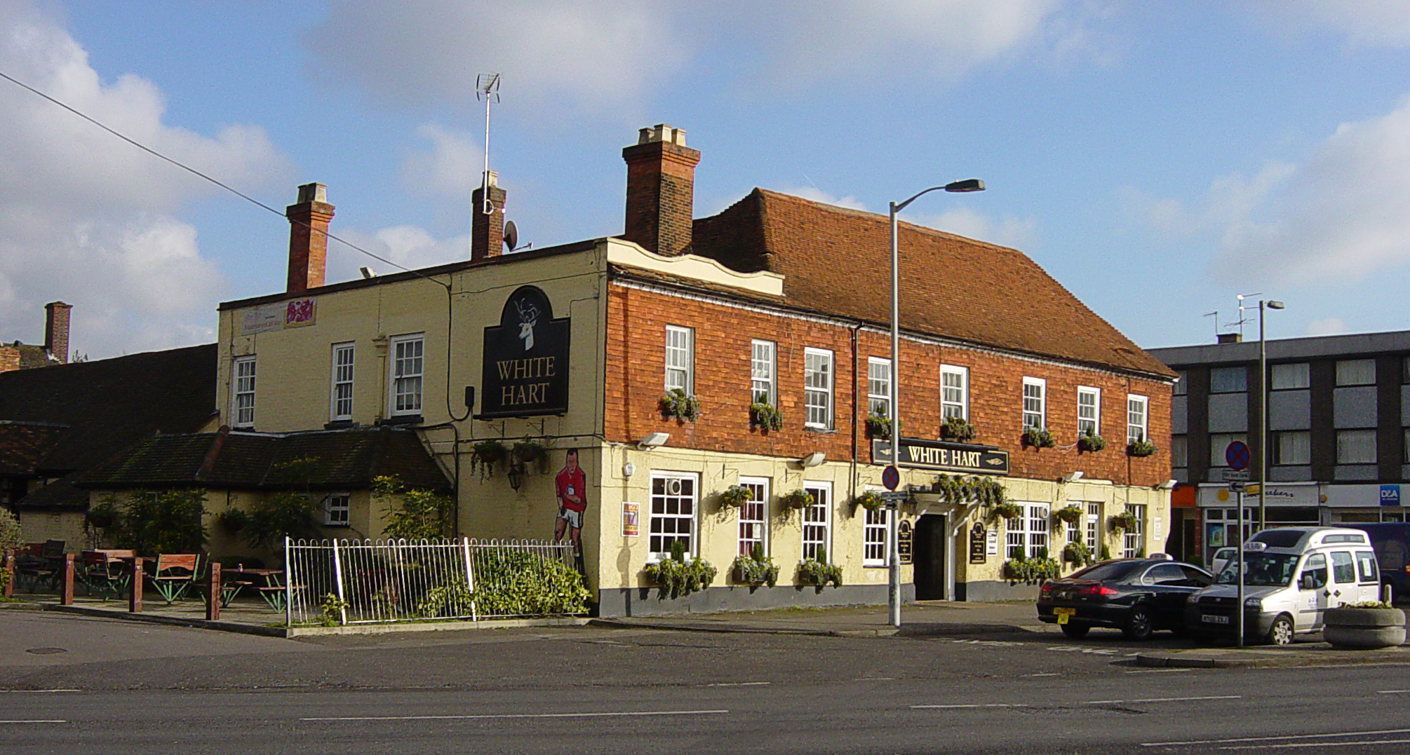 Photo of the White Hart Public House in Frimley, taken by me (Euchiasmus) on 25th January 2006